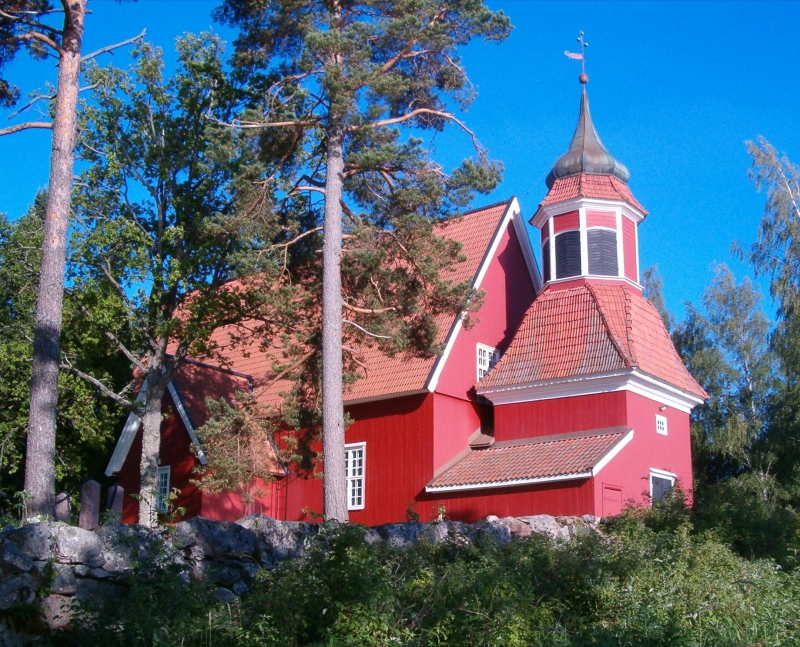 The Wooden Church of Angelniemi, Halikko, Finland.